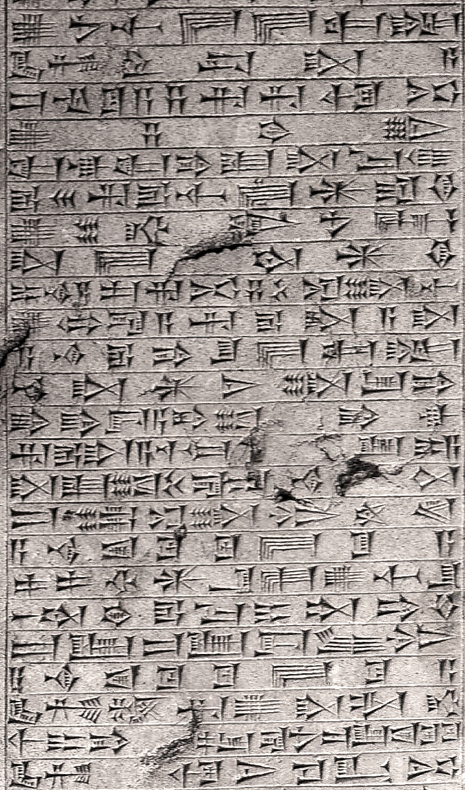 Image of an unidentified cuneiform tablet in the British Museum, London.